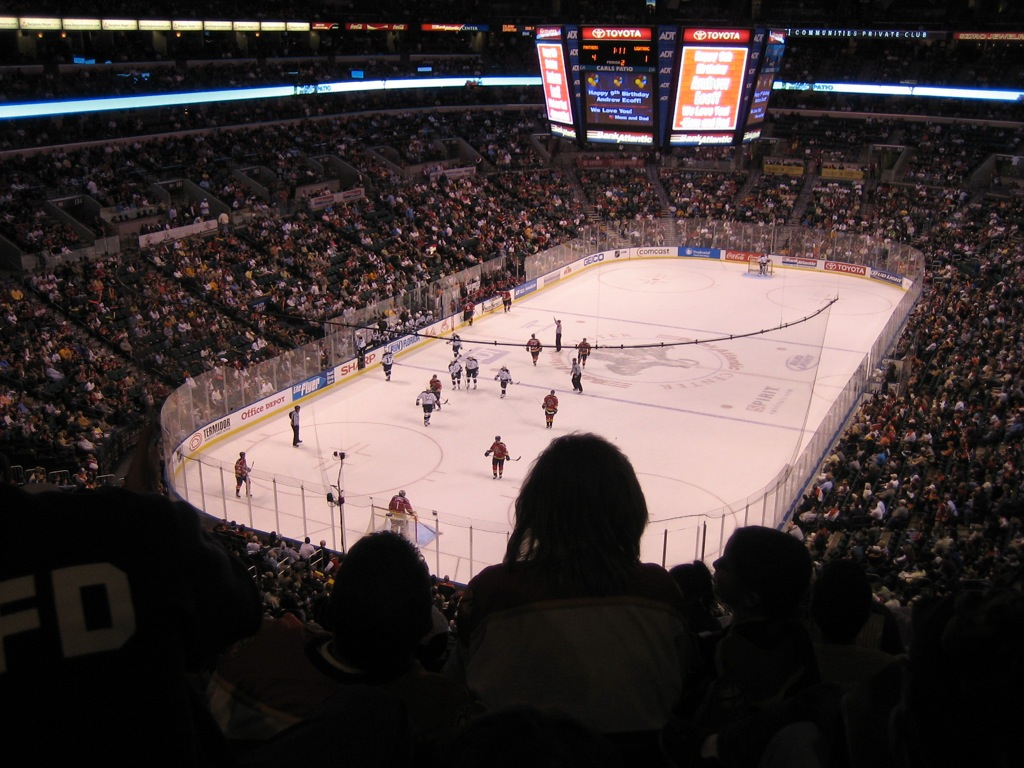 Florida Panthers vs. Tampa Bay Lightning, at Bank Atlantic Center.